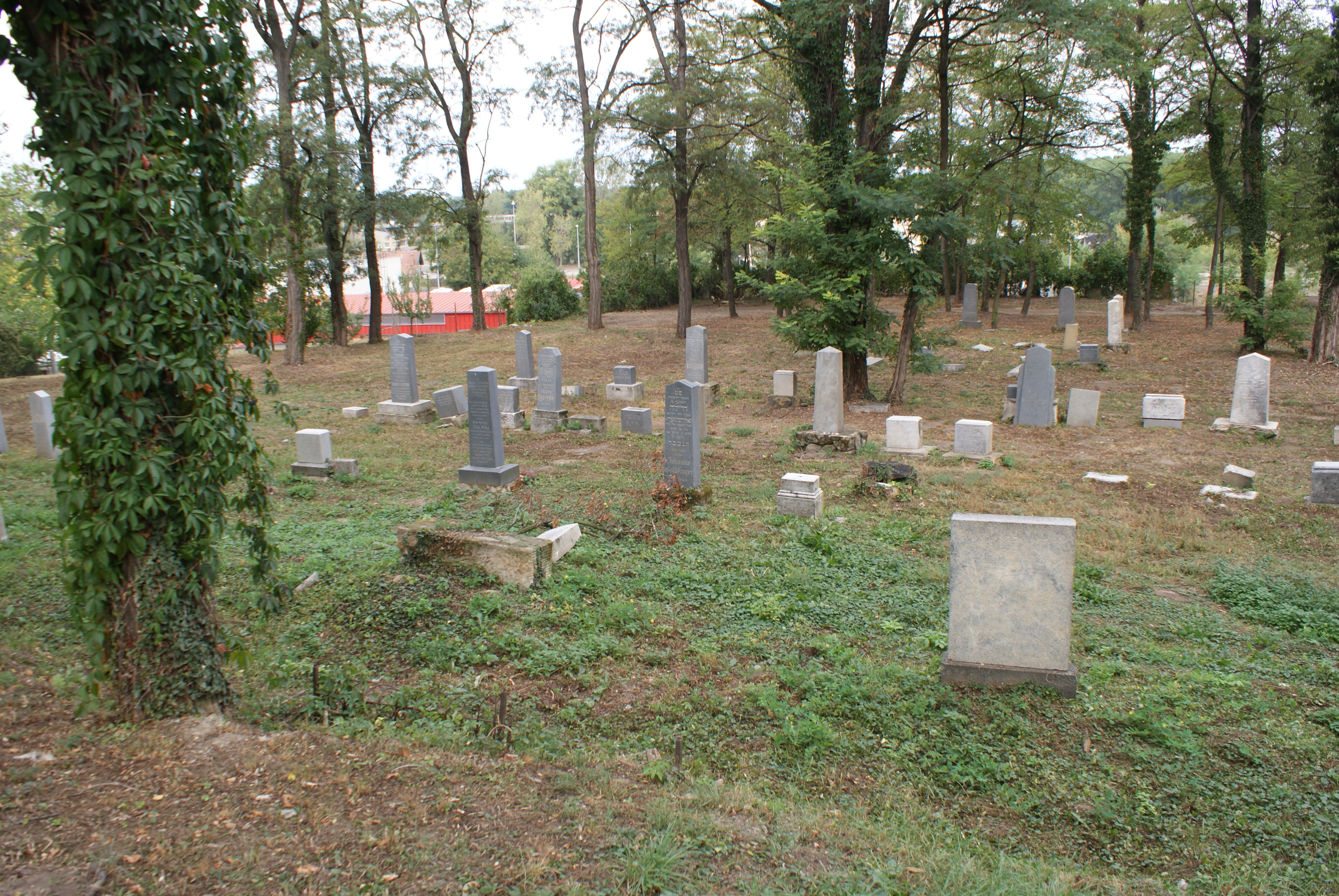 New Jewish cemetery in Skalica, Skalica district, Slovakia.